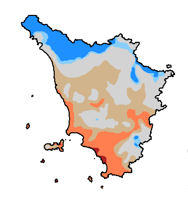 Climate map of Tuscany according to Thornthwaite